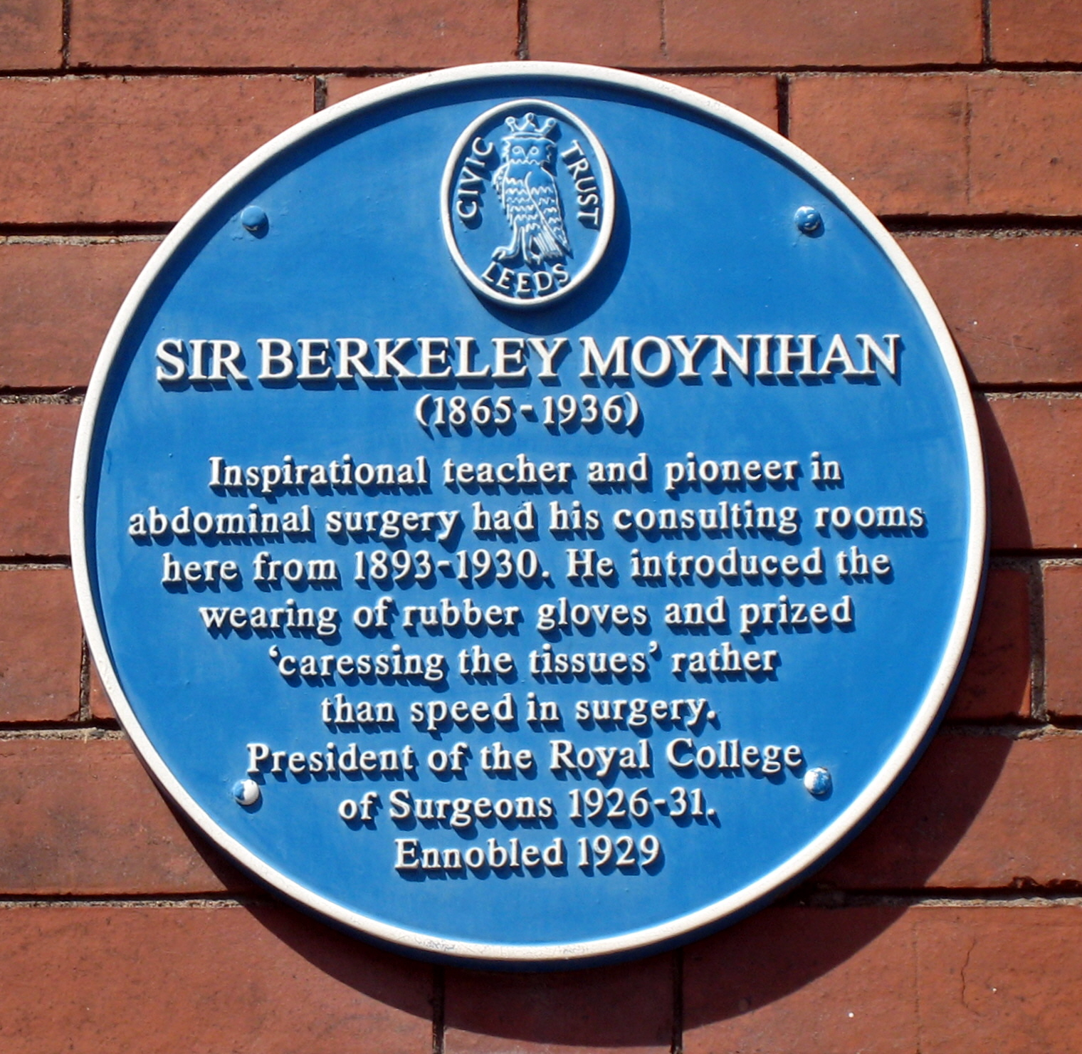 Leeds Civic Society blue plaque on the former Sir Berkeley Moynihan Consulting Rooms, 33 Park Place West, Leeds